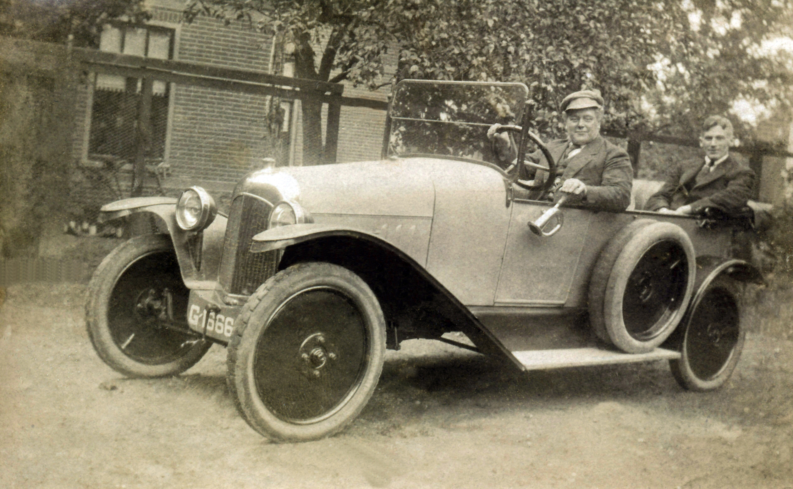 The Citroën Type A Torpedo 1919 in front of a farm, Melkpad 10, in Hilversum, The Netherlands. Depicted are Kees de Jongh and his son-in-law Joop de Groot.